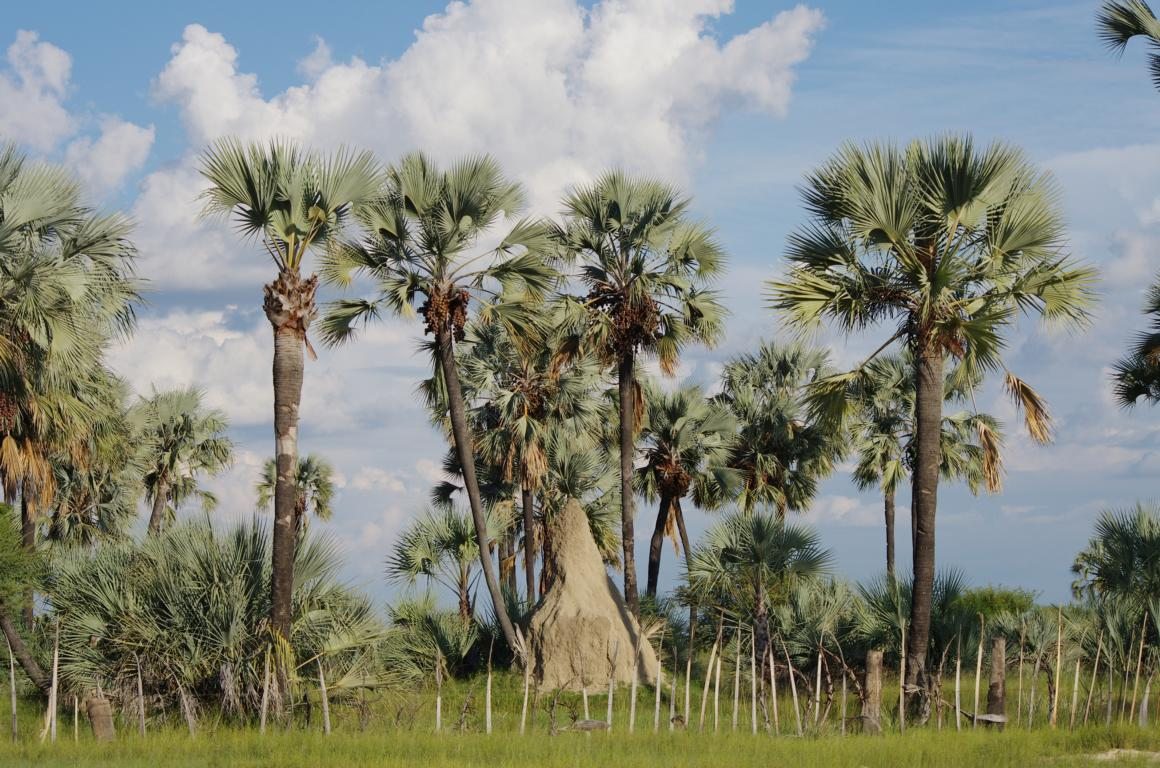 Palm trees in northern Namibia, the typical landscape found in the Oshana Region.